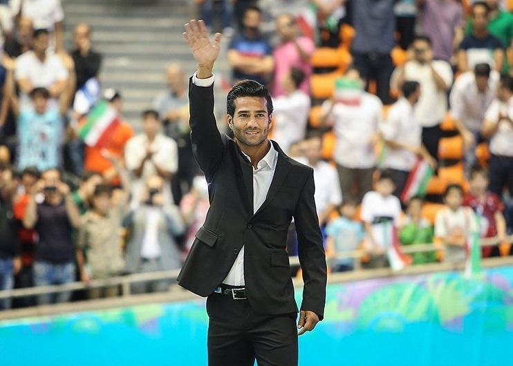 Iran national football team offs to Brazil for World Cup